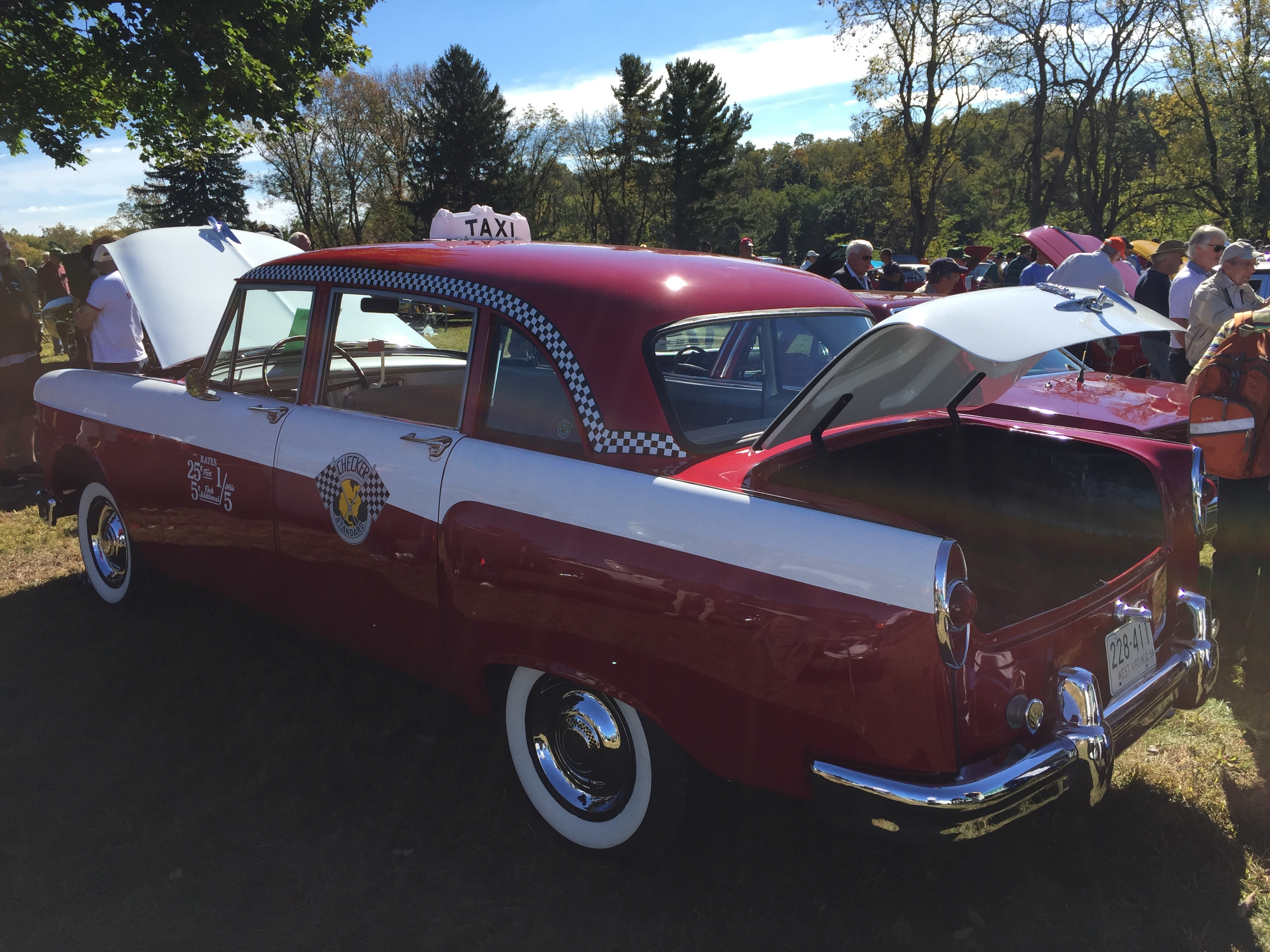 1958 Checker Standard, series A8 sedan finished in red and white taxi livery. Picture taken on the show field of the Antique Automobile Club of America (AACA) 2015 Eastern Regional Fall meet that is held every October in Hershey, Pennsylvania.